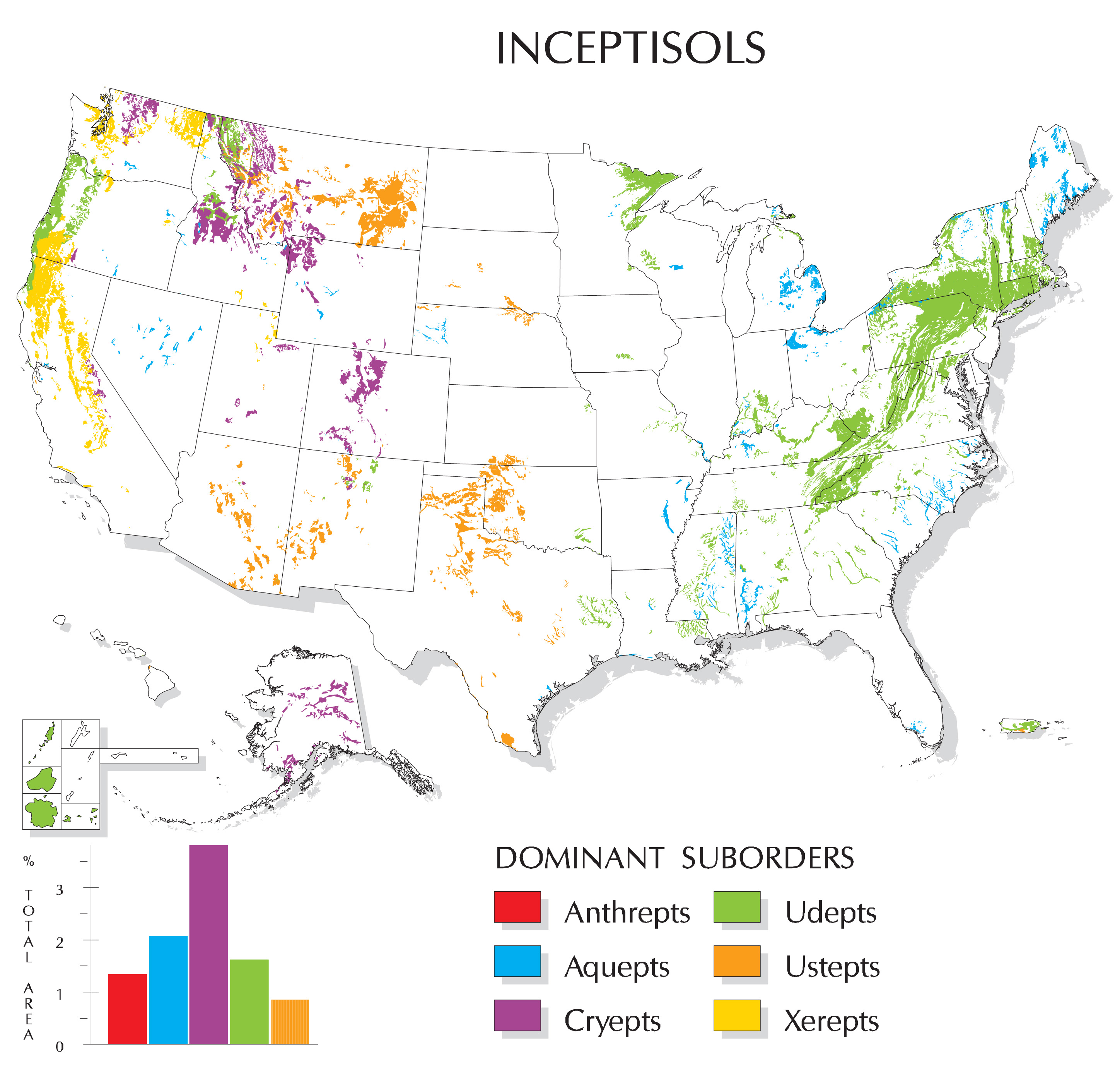 ABD'nin inseptisol alt sınıfların dağılım haritası